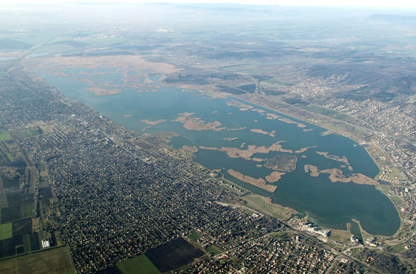 Lake Velence, Hungary, aerial photography